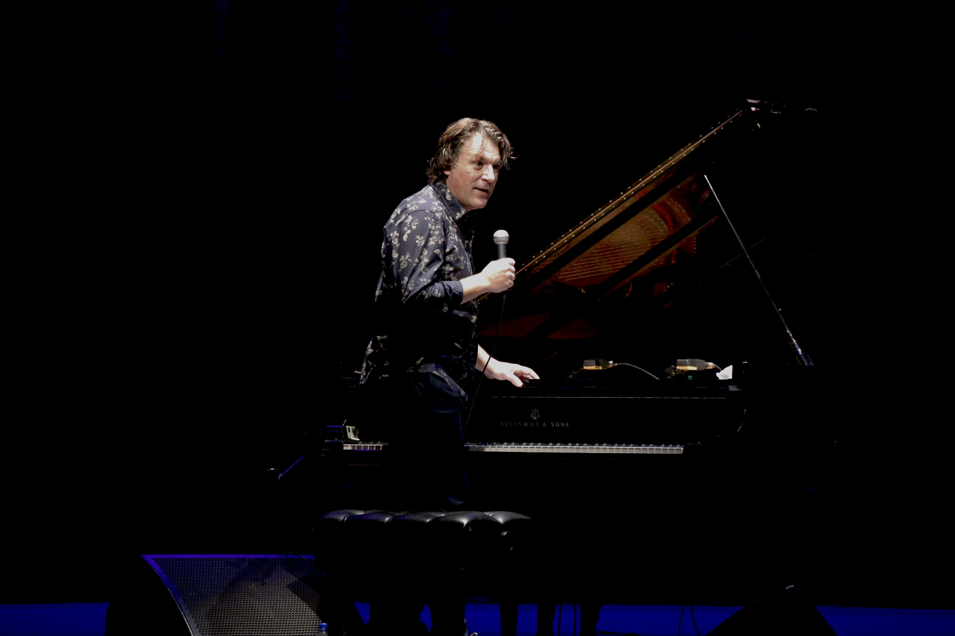 David Peña Dorantes at a show in Mexico City. Sunday, October 23, 2016. Picture by Vianey Lozada / Secretaria de Cultura CDMX.